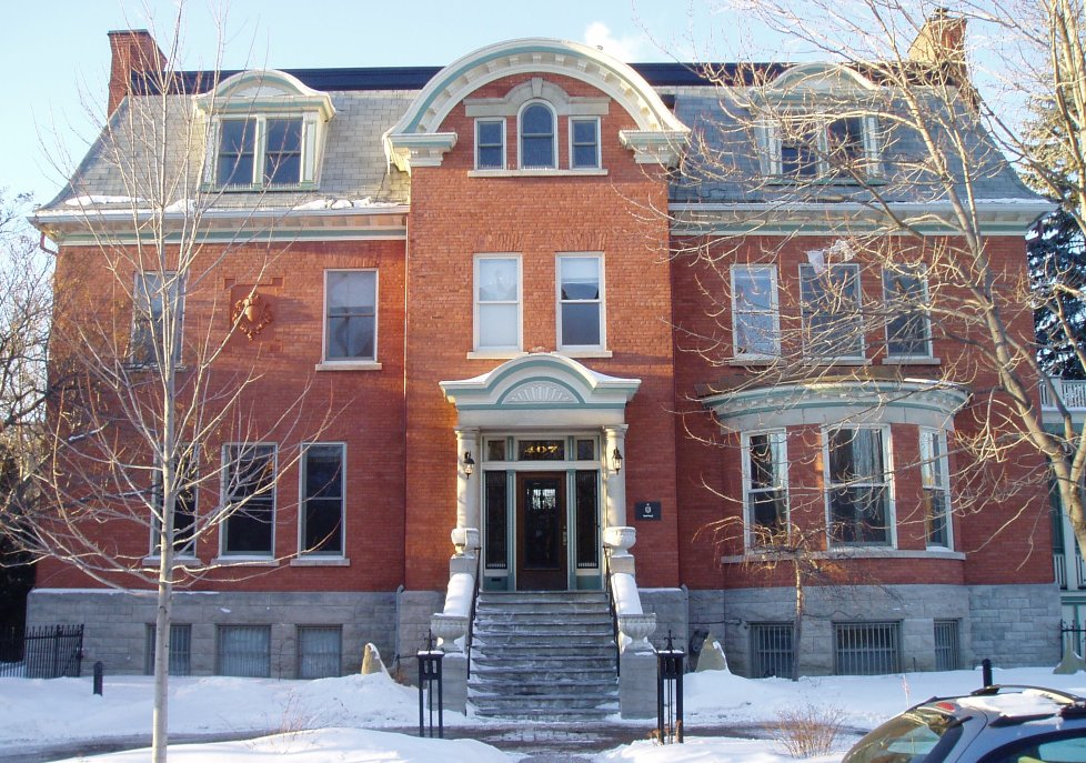 Australia House, the official residence of the Australian High Commissioner to Canada, in Ottawa, Canada in 2005.